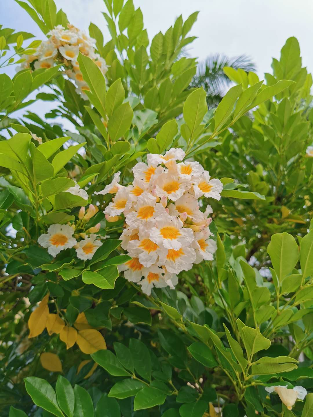 Radermachera, Taichung, Taiwan.